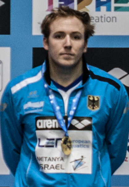 Swimmer Marco Koch with the gold medal he won at the 200m breaststroke, 2015 European Short Course Swimming Championships in Netanya